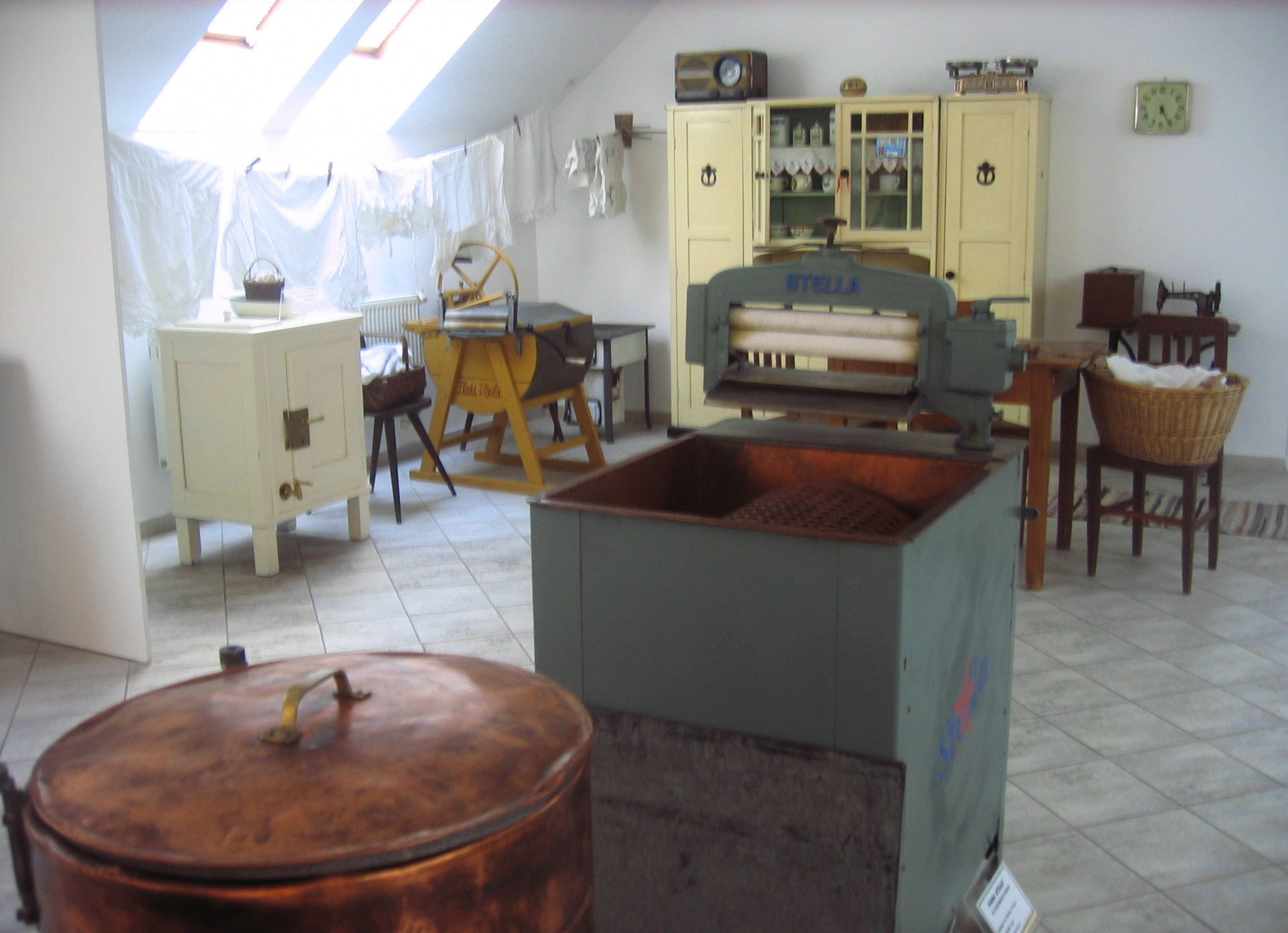 Exhibit "History of washing technology" in City Museum in Svitavy (Czech Republic)